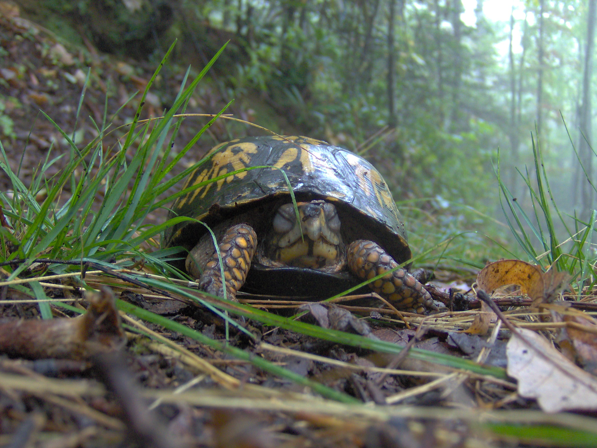 Box turtle sleeping along the Cove Mountain Trail in the Great Smoky Mountains National Park of Sevier County, Tennessee, USA.